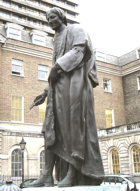 Statue Of Thomas Guy-Guys Hospital-London